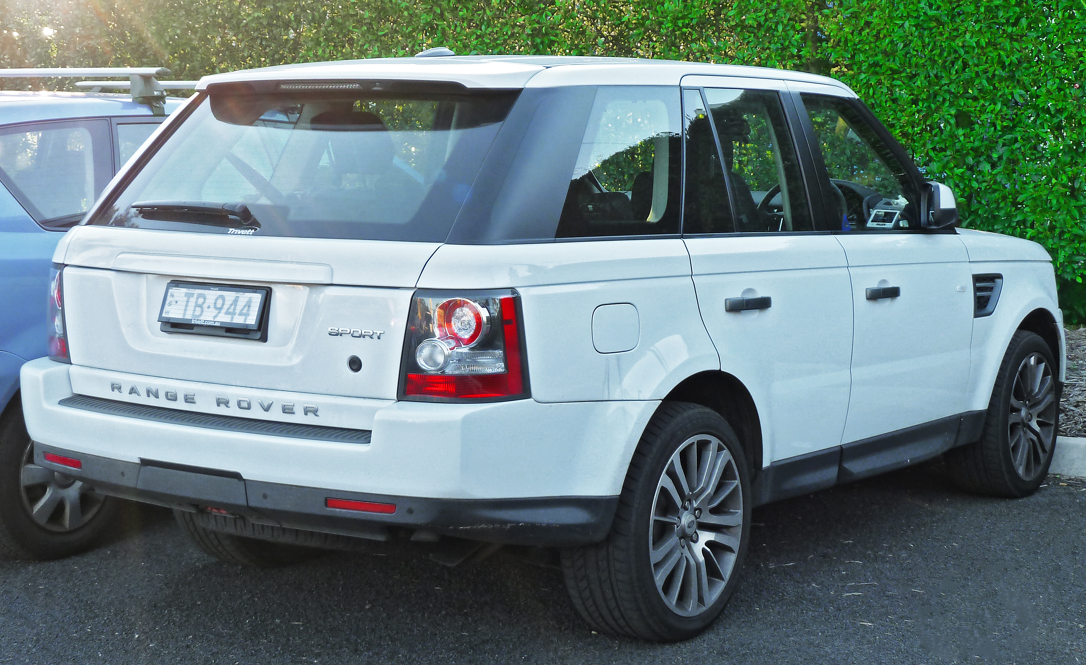 2011 Land Rover Range Rover Sport (L320 11MY) wagon. Photographed in Camperdown, New South Wales, Australia.